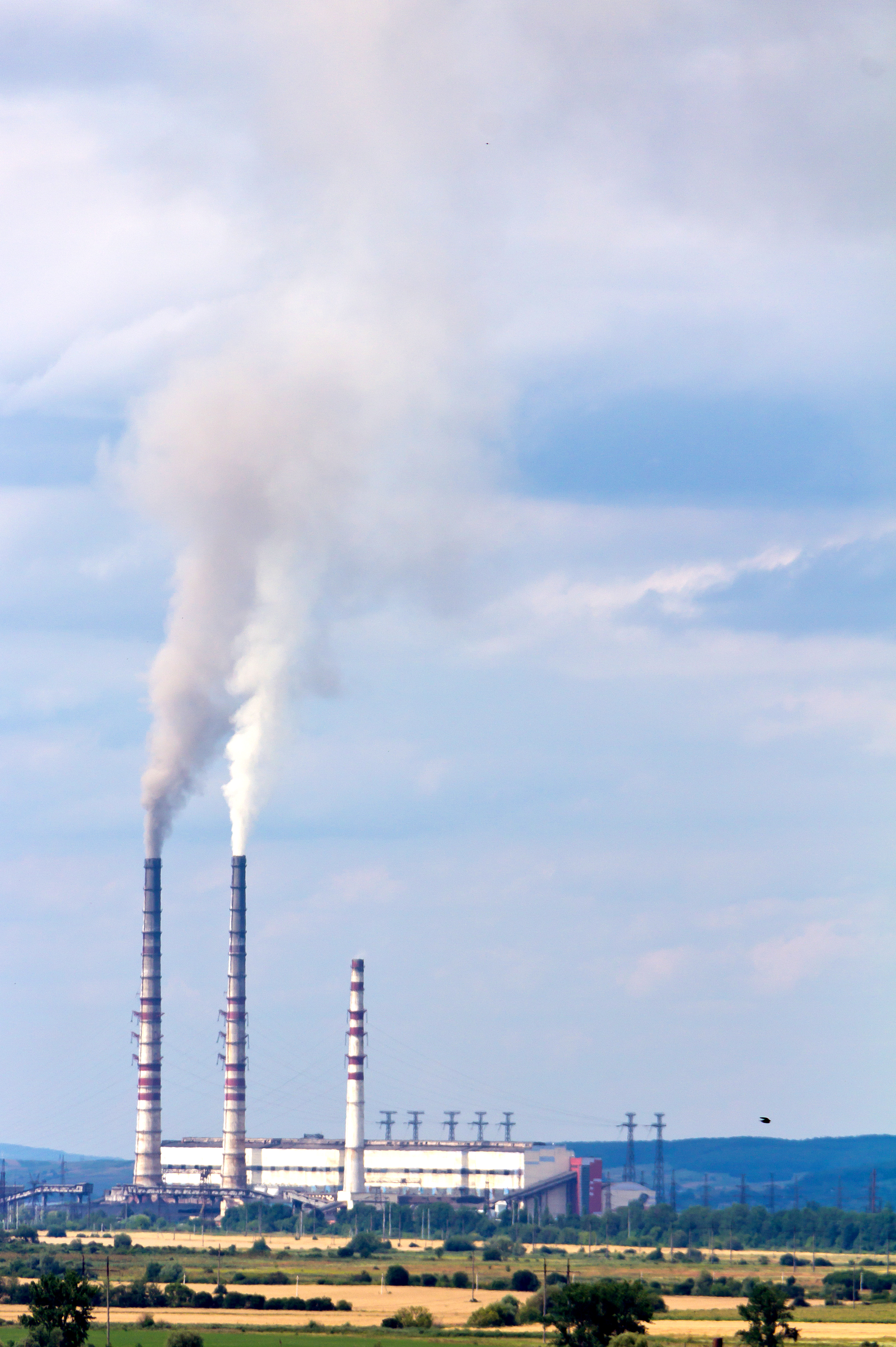 Power plant Burshtyn TES, Ivano-Frankivsk Oblast, Ukraine. View from Shevchenkovo